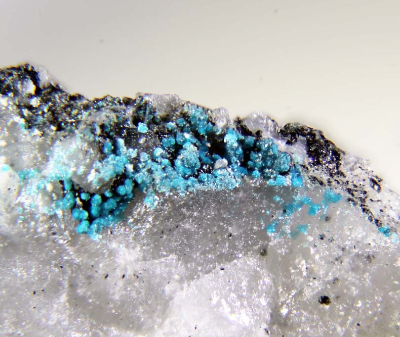 Blue crystals of the extremely rare mineral mahnertite from the type locality for the mineral (Cap Garonne, Var, Provence-Alpes-Cote d'Azur, France).